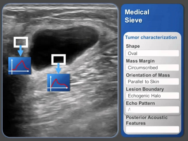 IBM launched an algorithm called Medical Sieve qualified to assist in clinical decision making in radiology and cardiology.